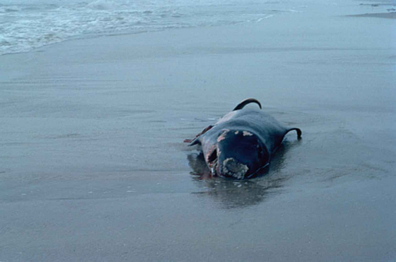 Image title: Marine mammal pigmy sperm whale (Kogia breviceps) beached Image from Public domain images website